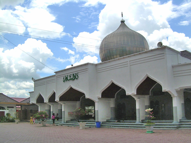 Darussalam Mosque in Bojonegoro, East Java, Indonesia. Taken by me.